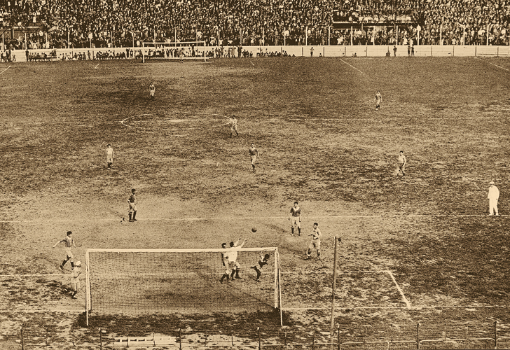 Chacarita Juniors-Boca Juniors, match played on September 27, 1931.